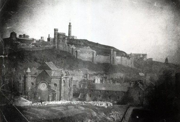 Picture of Trinity College Kirk, Edinburgh, shortly before its destruction